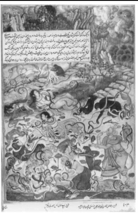 Ramayana